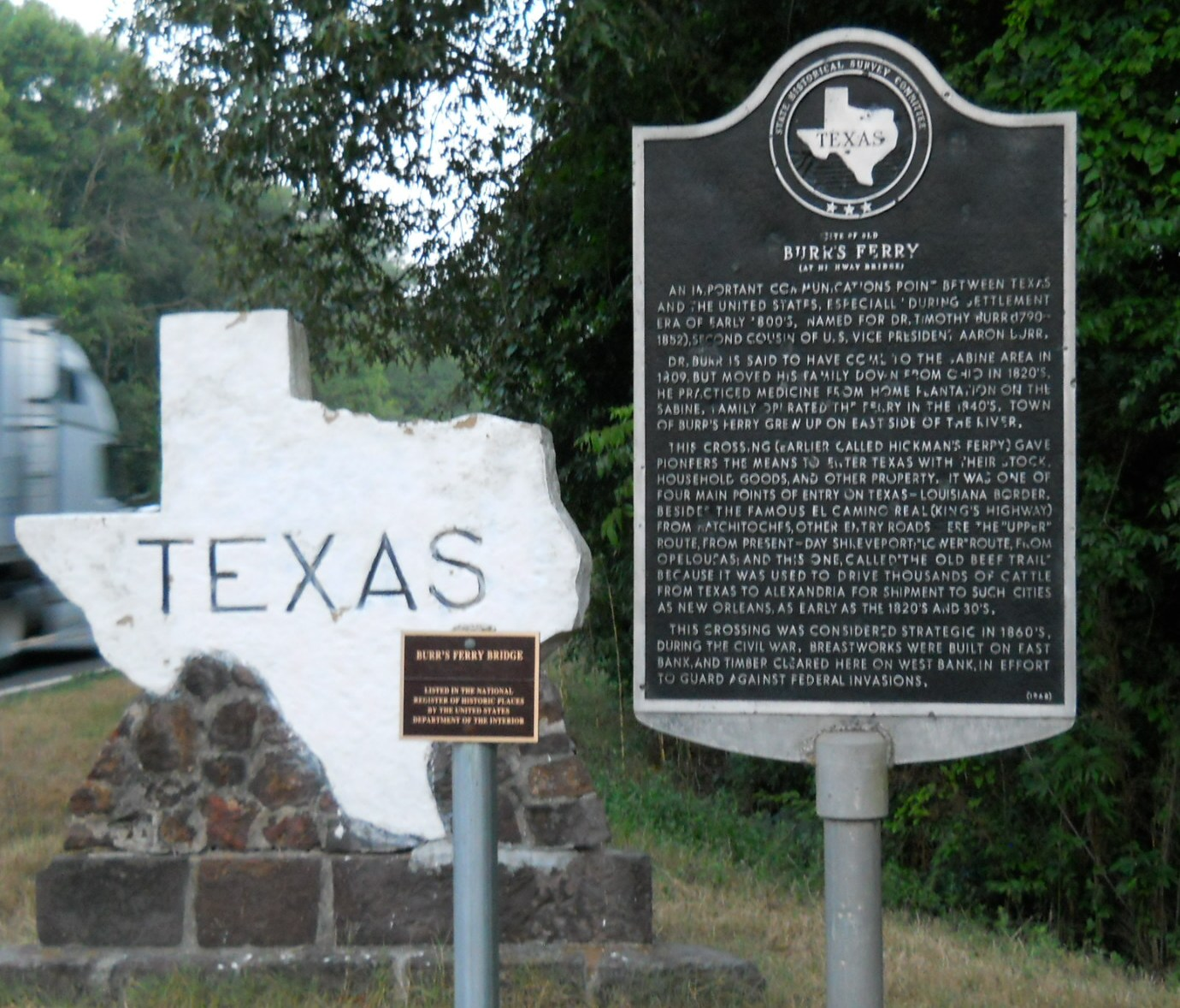 Burr's Ferry Texas Historical Marker commemorates the location of one of the key crossing points of the Sabine River, the boundary between Texas and Louisiana.